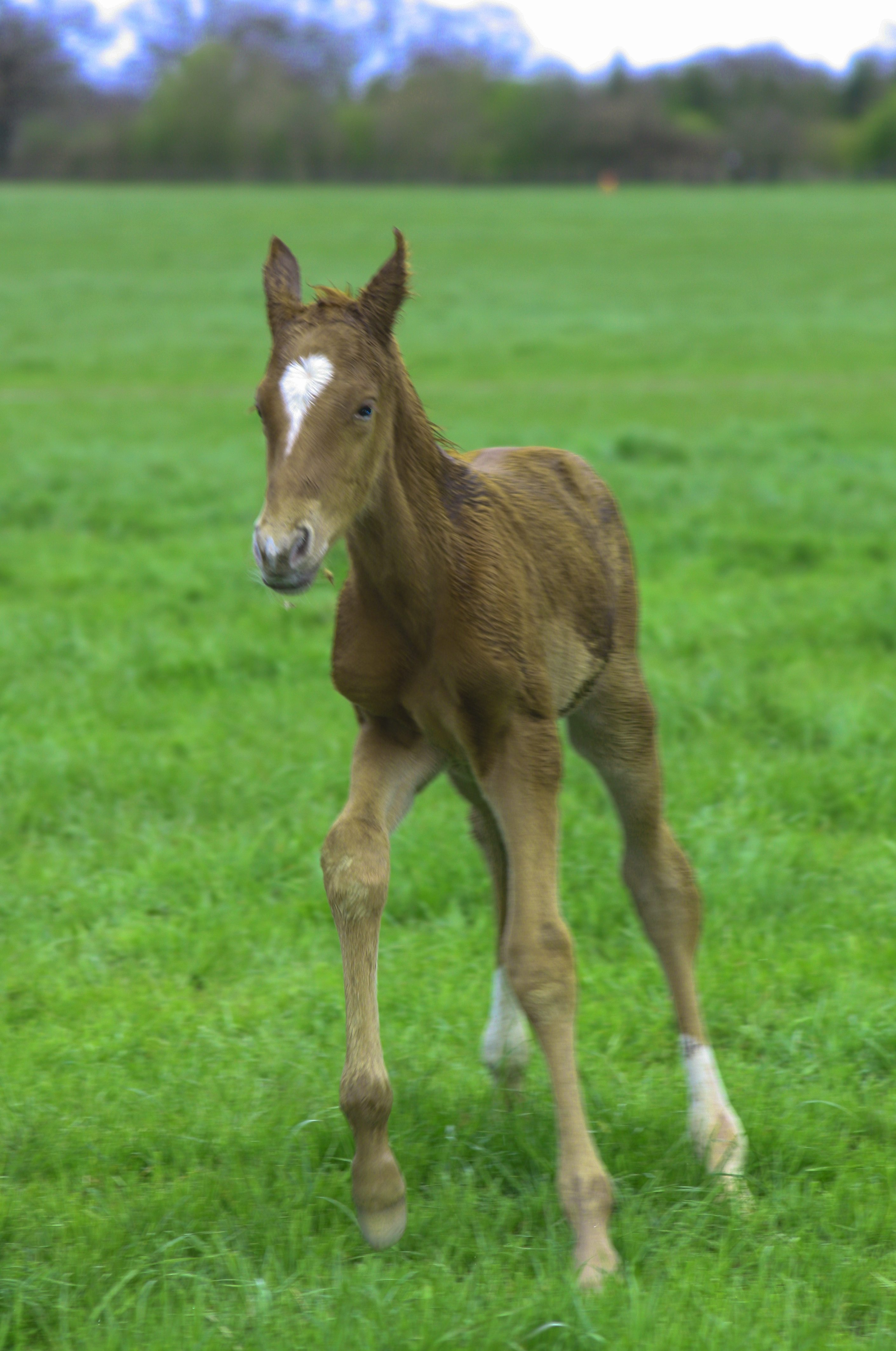 A young chestnut foal with a shooting star, a snip and white socks in the hinds. Pink skin in the nose might darken with time.